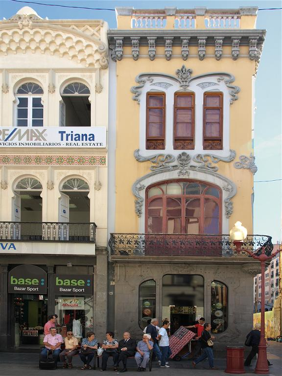 Las Palmas de Gran Canaria , Calle Mayor de Triana, photo 2009